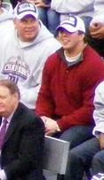 David Diehl at the Giants Rally after victory in Super Bowl XLII.